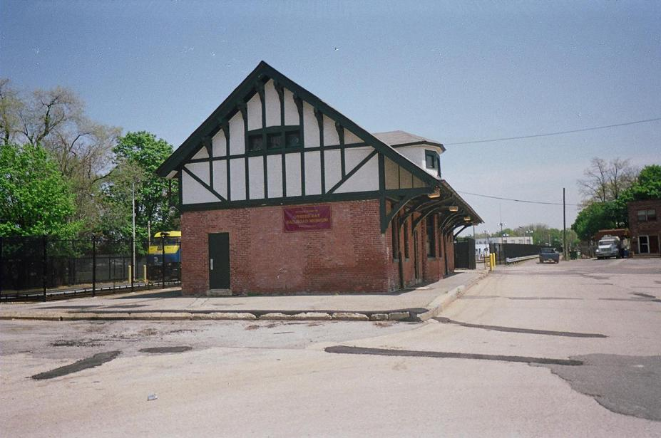 Image of Oyster Bay, New York's former Long Island Railroad Station house, which contains a banner announcing it's future reopening as a local railroad museum.